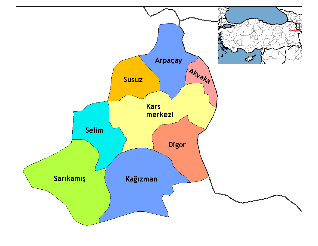 Map of the districts of Kars province in Turkey. Created by Rarelibra 21:58, 1 December 2006 (UTC) for public domain use, using MapInfo Professional v8.5 and various mapping resources. Edited by One Homo Sapiens Corrected text where İ,Ş,ı,ğ,or ş occurs in name. Source: [statoids-com]. Increased font size and enhanced color differences among adjacent districts.